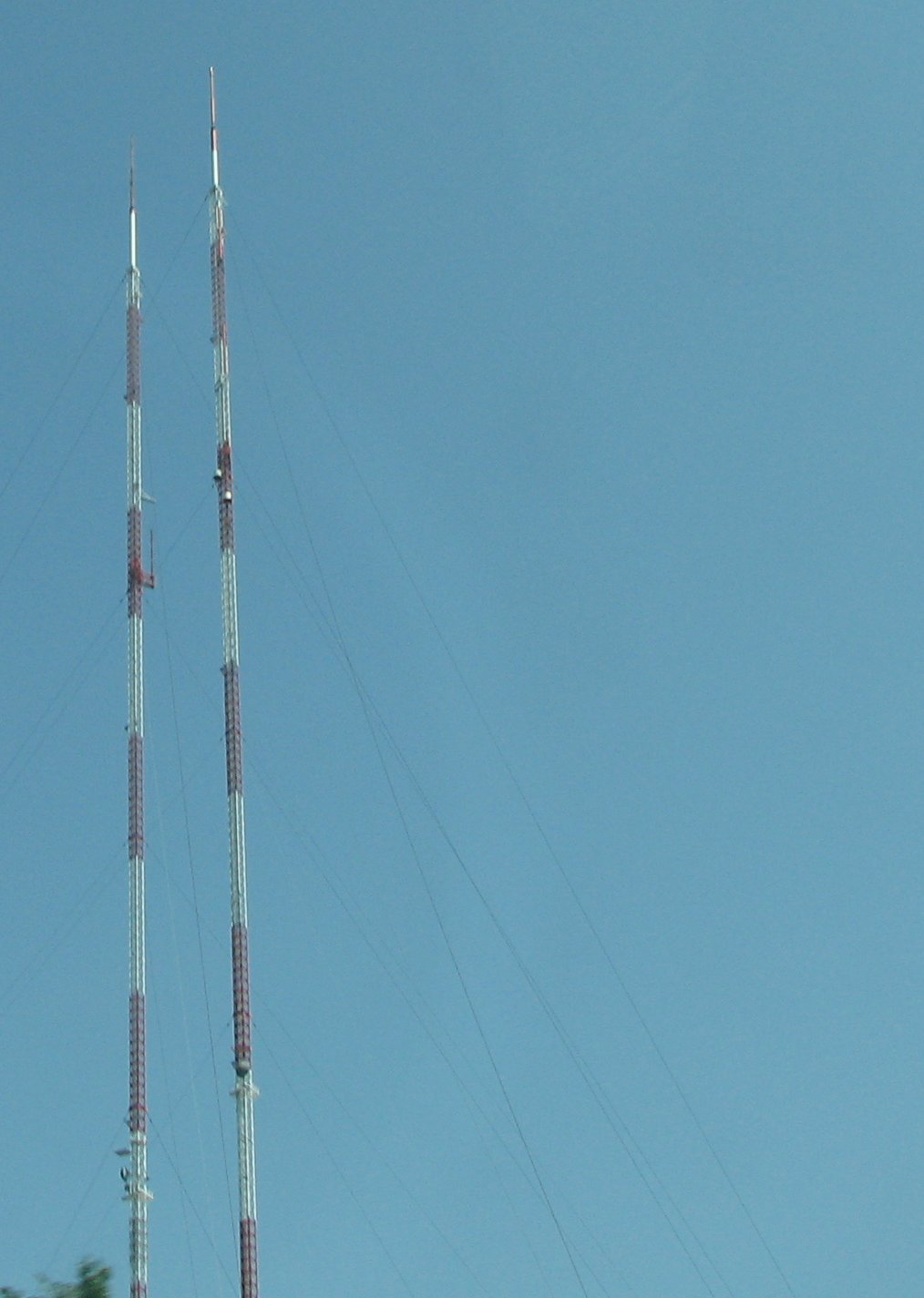 This is a picture of the Telefarm towers.